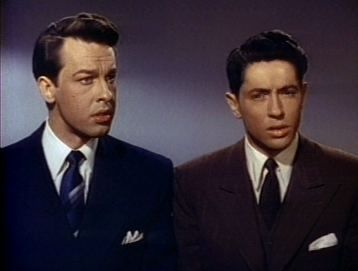 Cropped screenshot of John Dall and Farley Granger from the trailer for the film Rope.